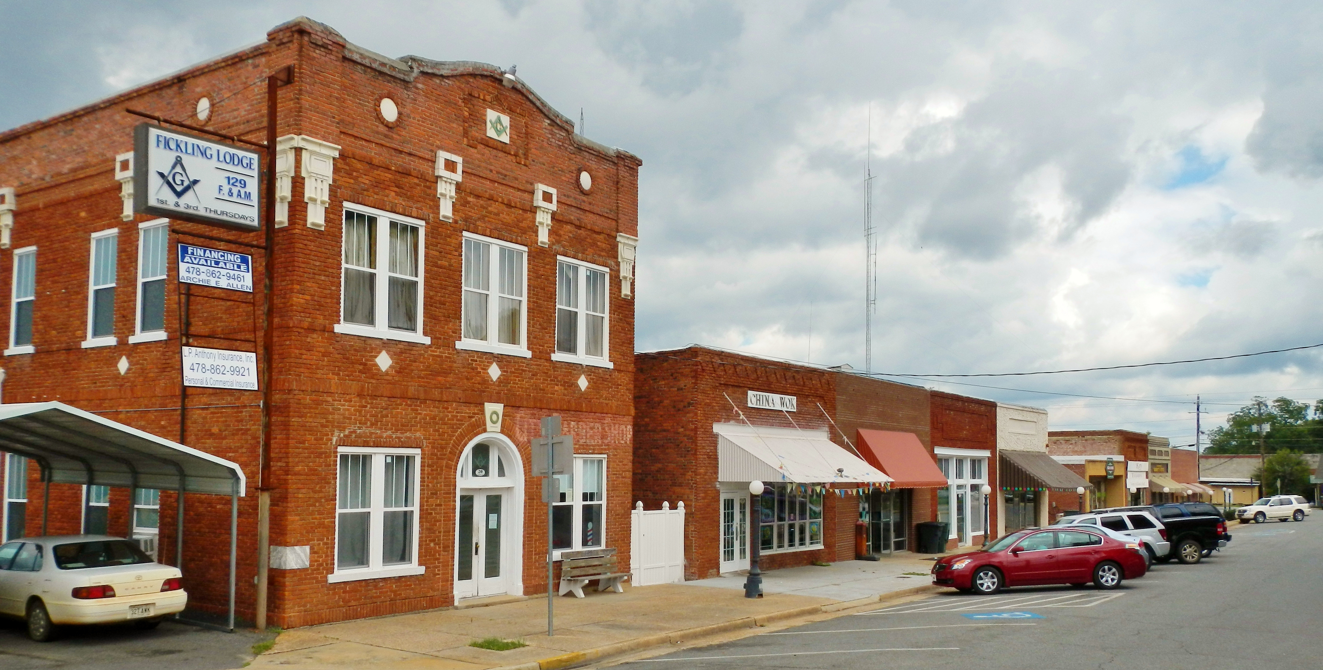 This is a photo of Butler, GA.